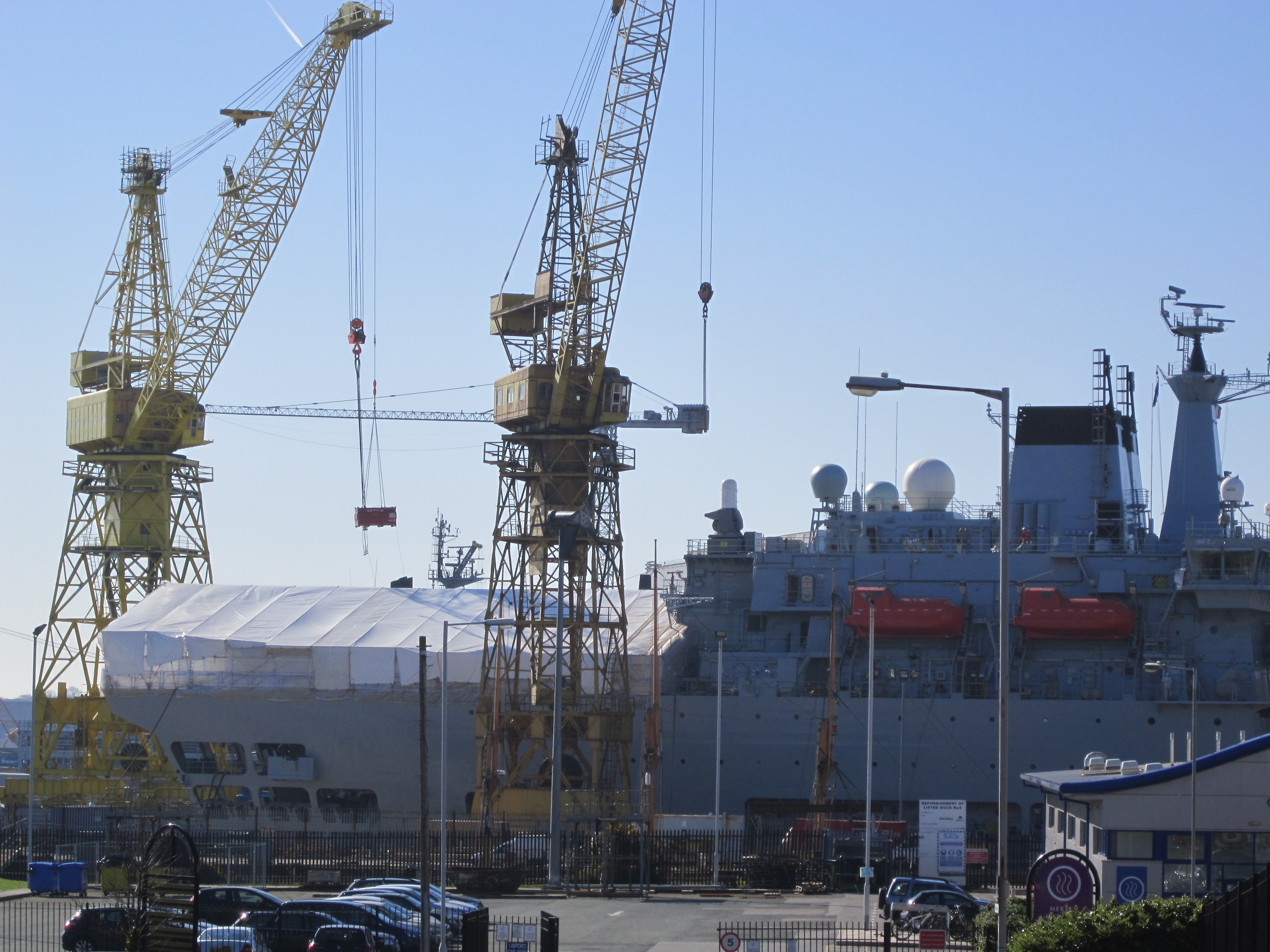 A ship undergoing refit work at Cammell Laird, Birkenhead, Merseyside, England.